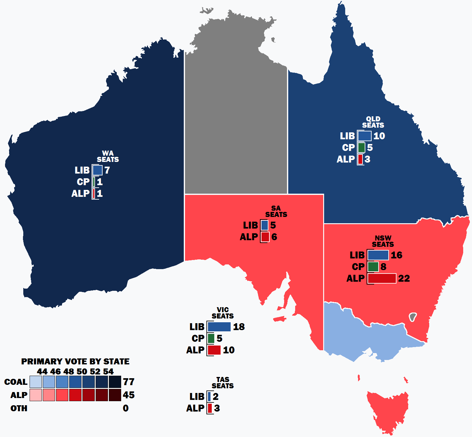 Result of the primary vote by state in the 1958 Australian federal election.